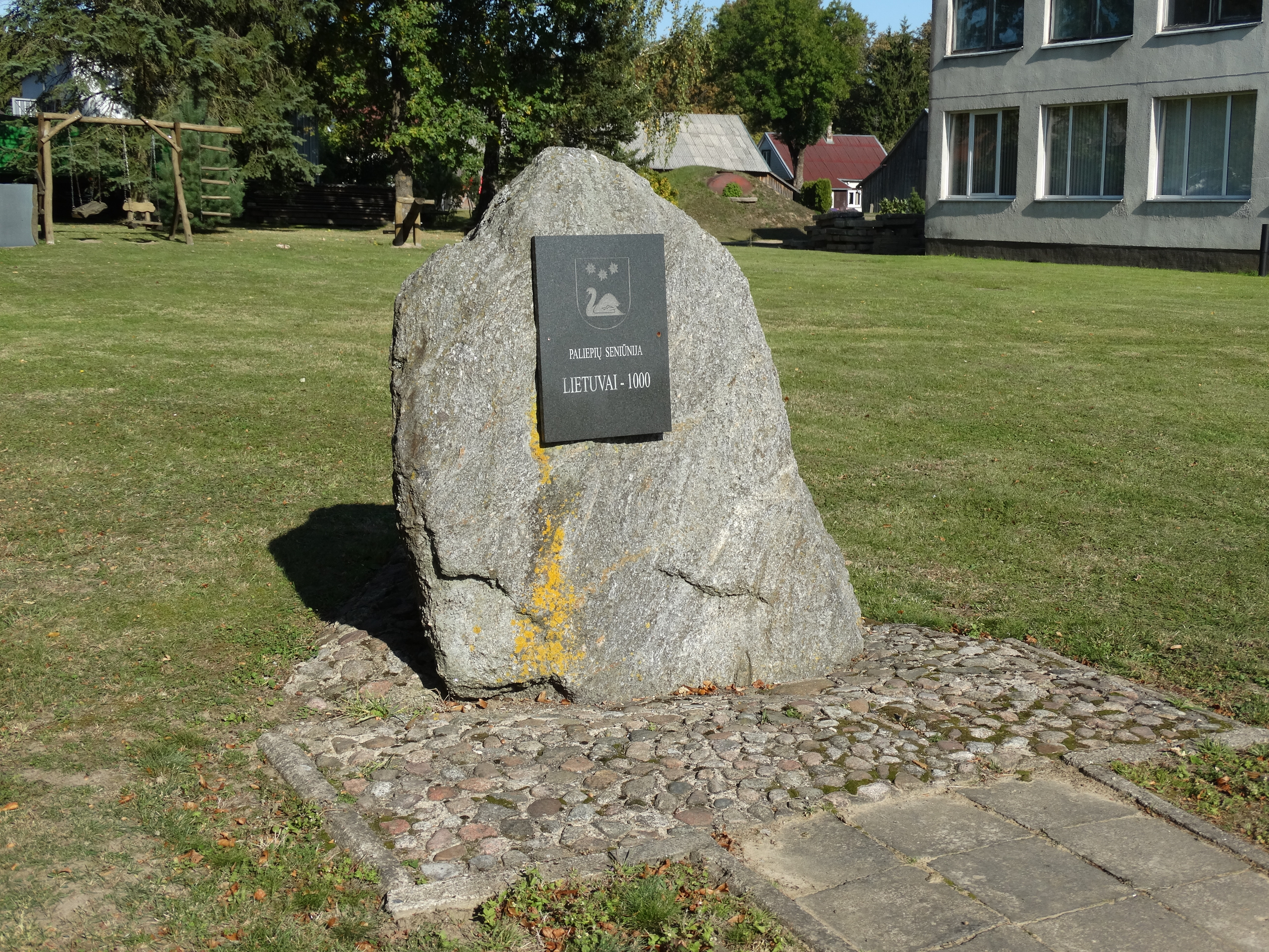 Sujainiai, memorial stone, Raseiniai district, Lithuania